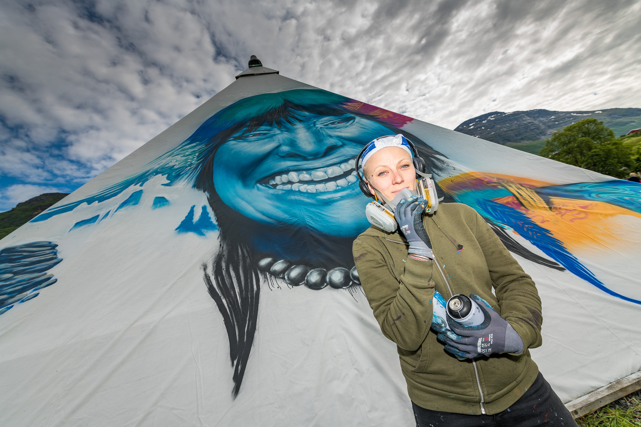 Linda "Zina" Aslaksen and her Buffy Sainte-Marie artwork at Riddu Riđđu 2019